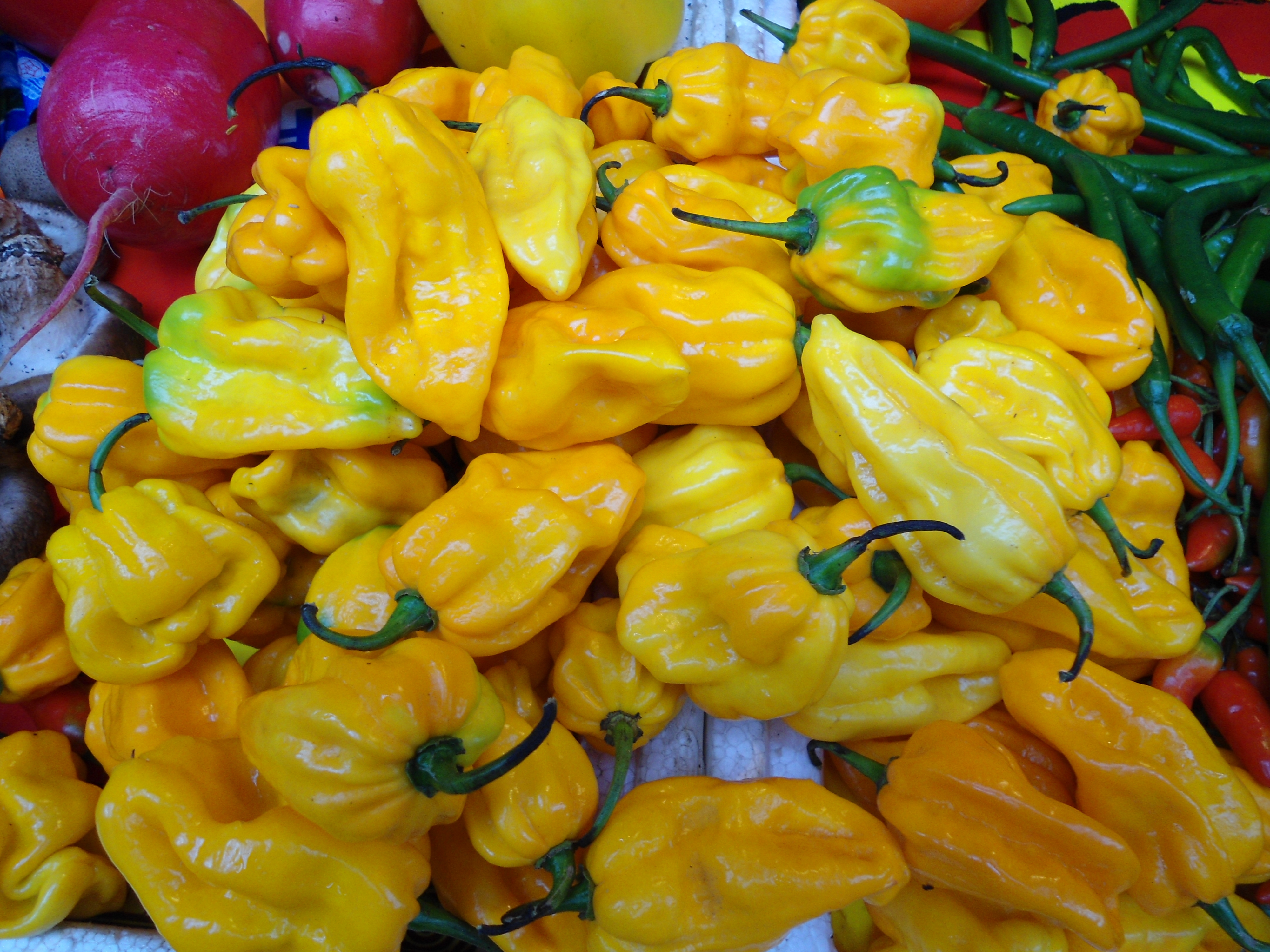 Hainan Yellow Lantern Chili (Chinese: 海南黄灯笼椒 Pinyin:hǎi nán huáng dēng lóng jiāo) in a market in Haikou City, Hainan Province, China.